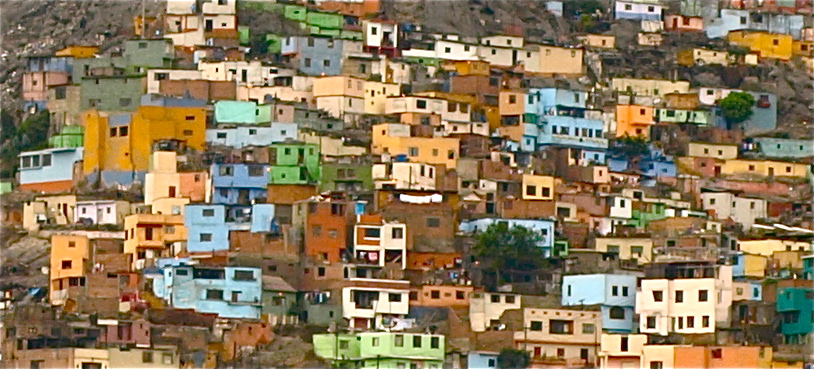 Sant Cristobal Cerro, Lima Place Lloc/Place: Lima